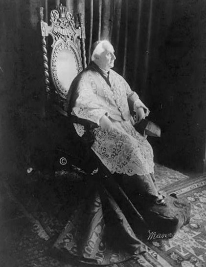 John Cardinal Murphy Farley (1842 - 1918)